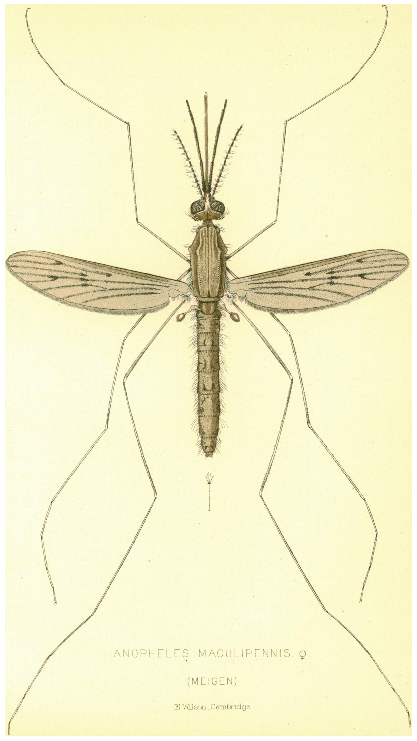 Drawing of a female Malaria mosquito from the species Anopheles maculipennis (Diptera: Culicidae)